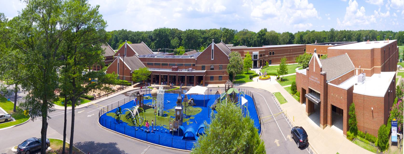 Aerial drone shot of Lausanne's Discovery Center, Lower School and EPAC.